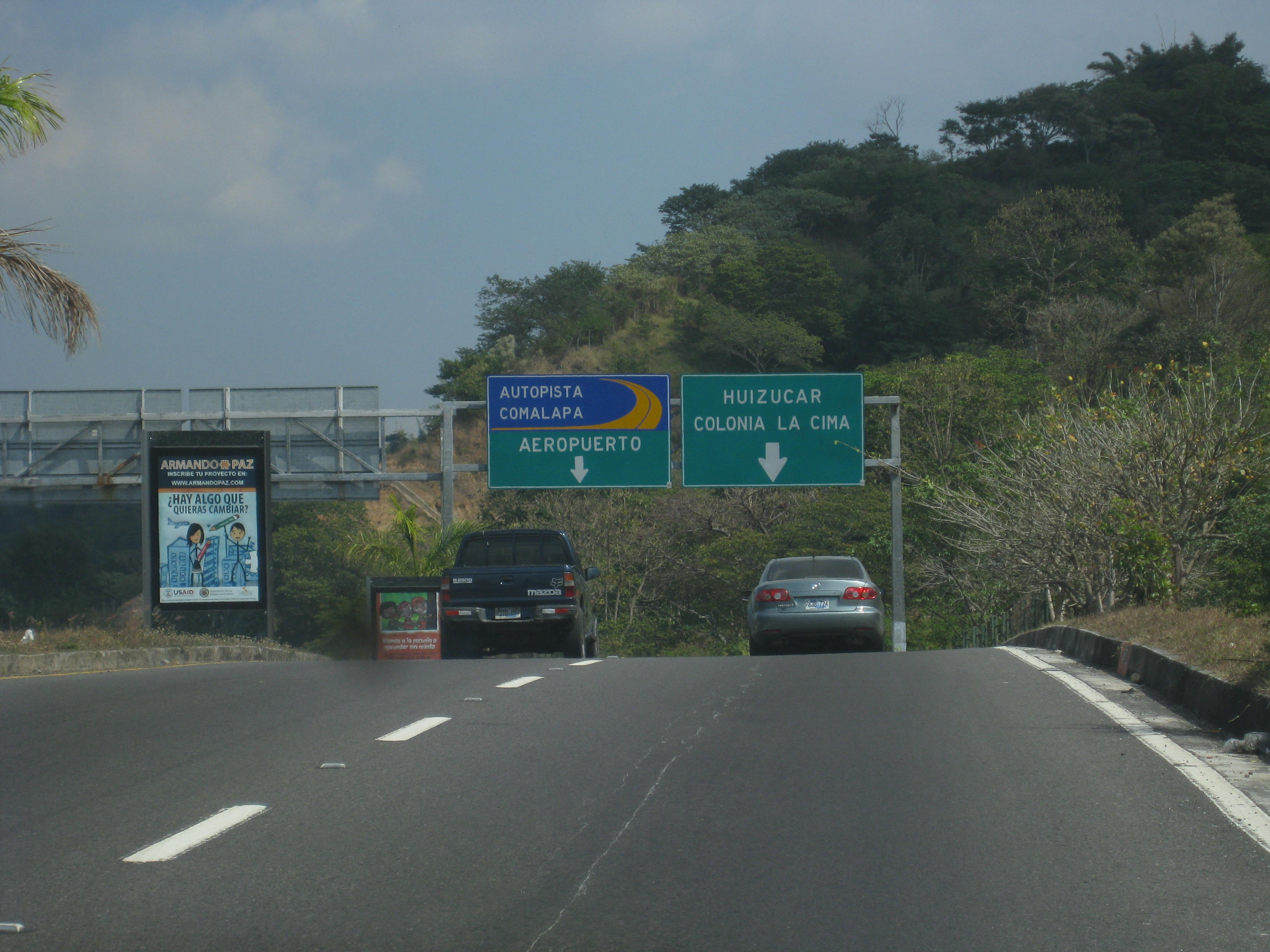 Road to the Airport from Antiguo Cuscatlan